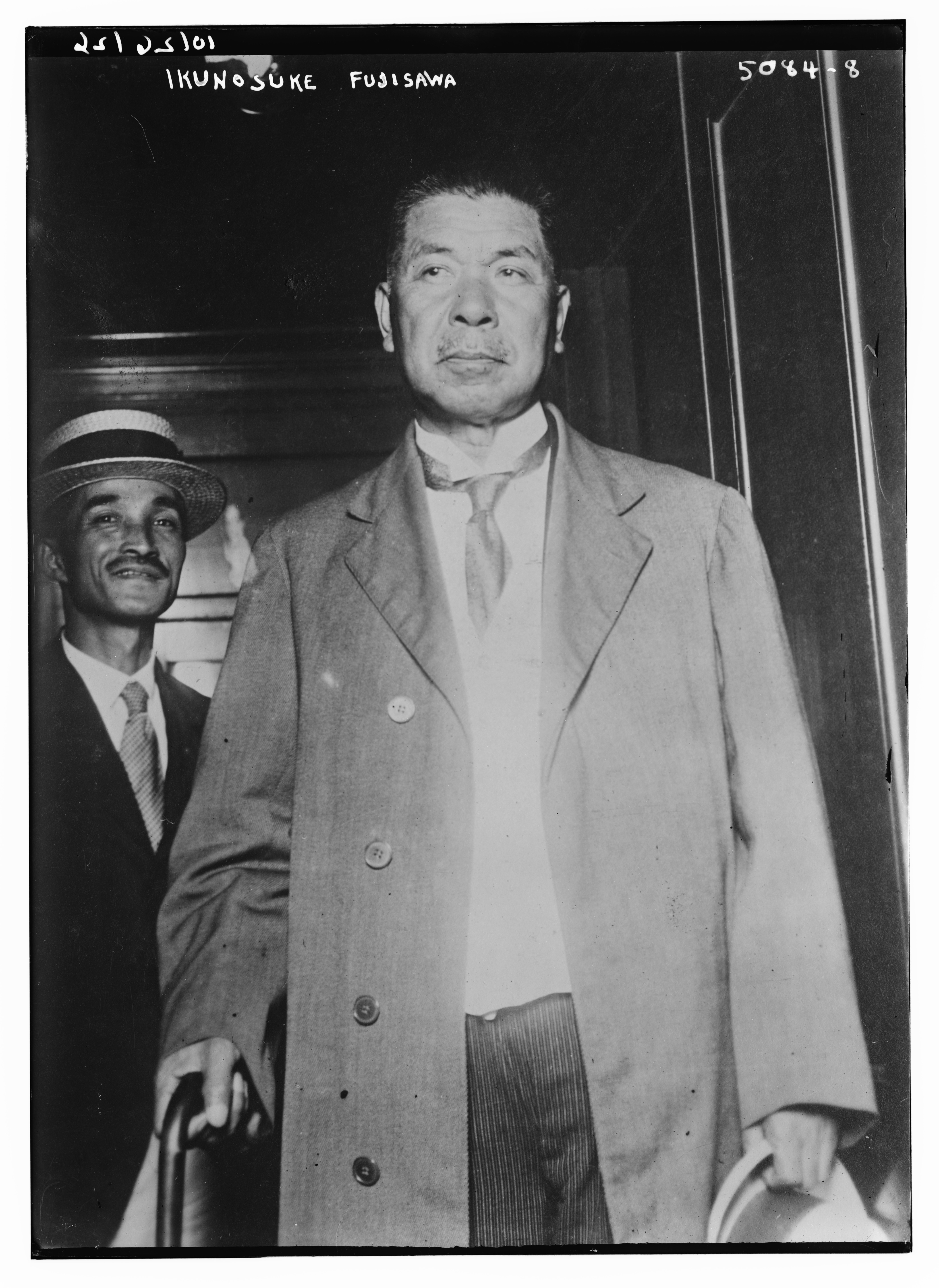 Ikunosuke Fujisawa circa 1920